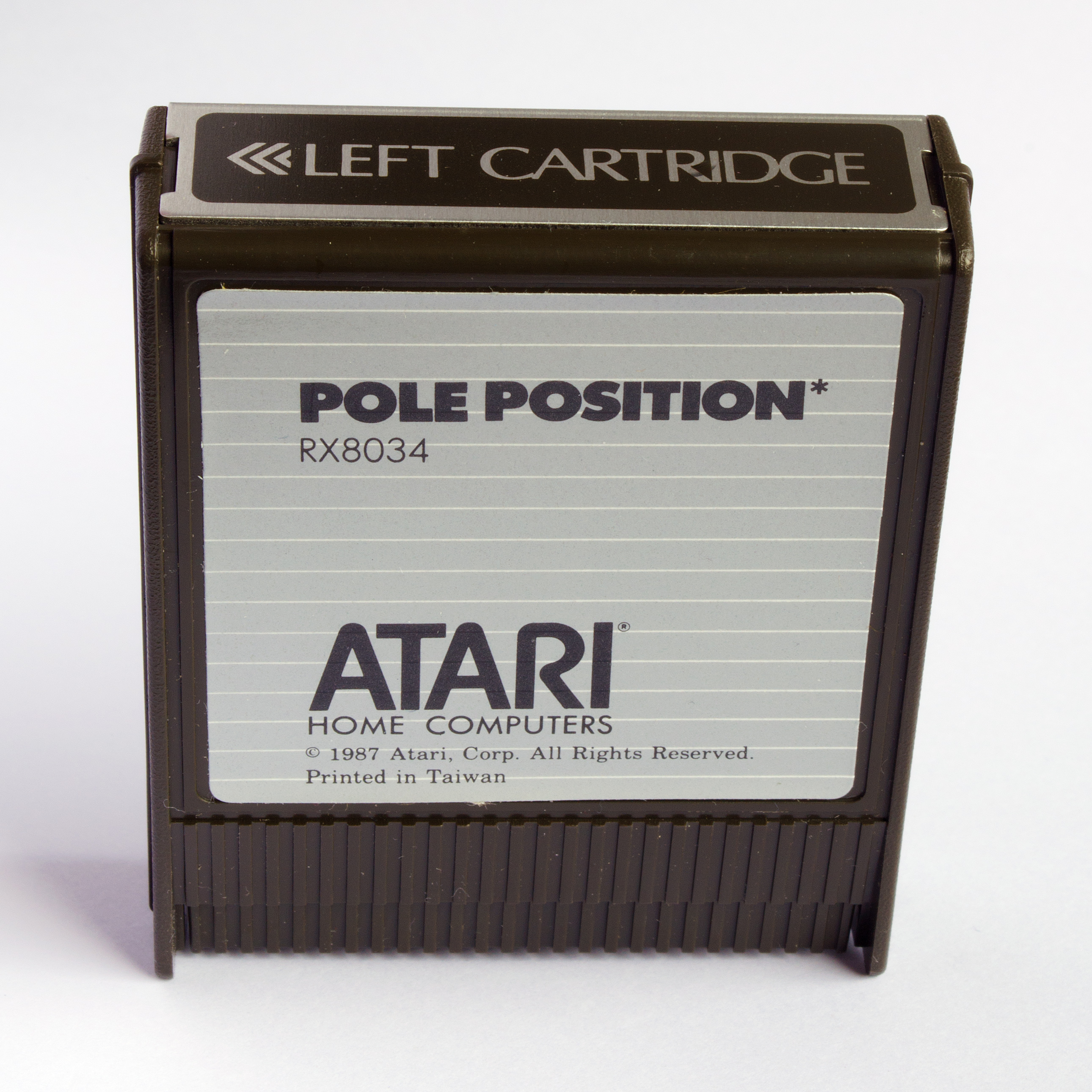 Atari Pole Position video game cartridge RX8034 for 8-bit computers (400/800/XL/XE). Note the early-to-mid "400/800 era" style case (including metallic label on top and back just like this cartridge), but with late-400/800 and XL-era-style artwork on the adhesive front label, despite this being dated 1987, around time of XEGS.